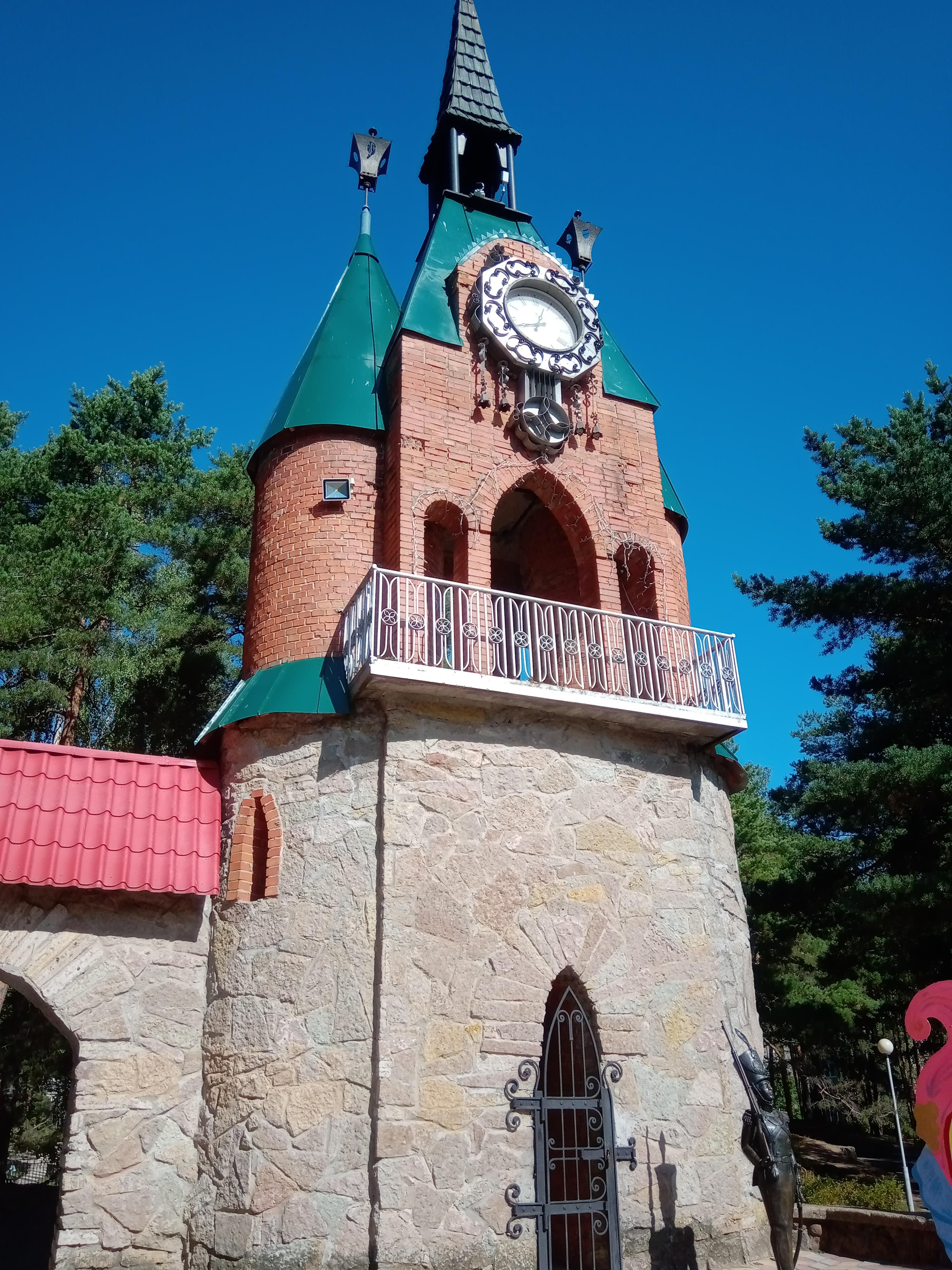 Andersengrad, Sosnovyj Bor